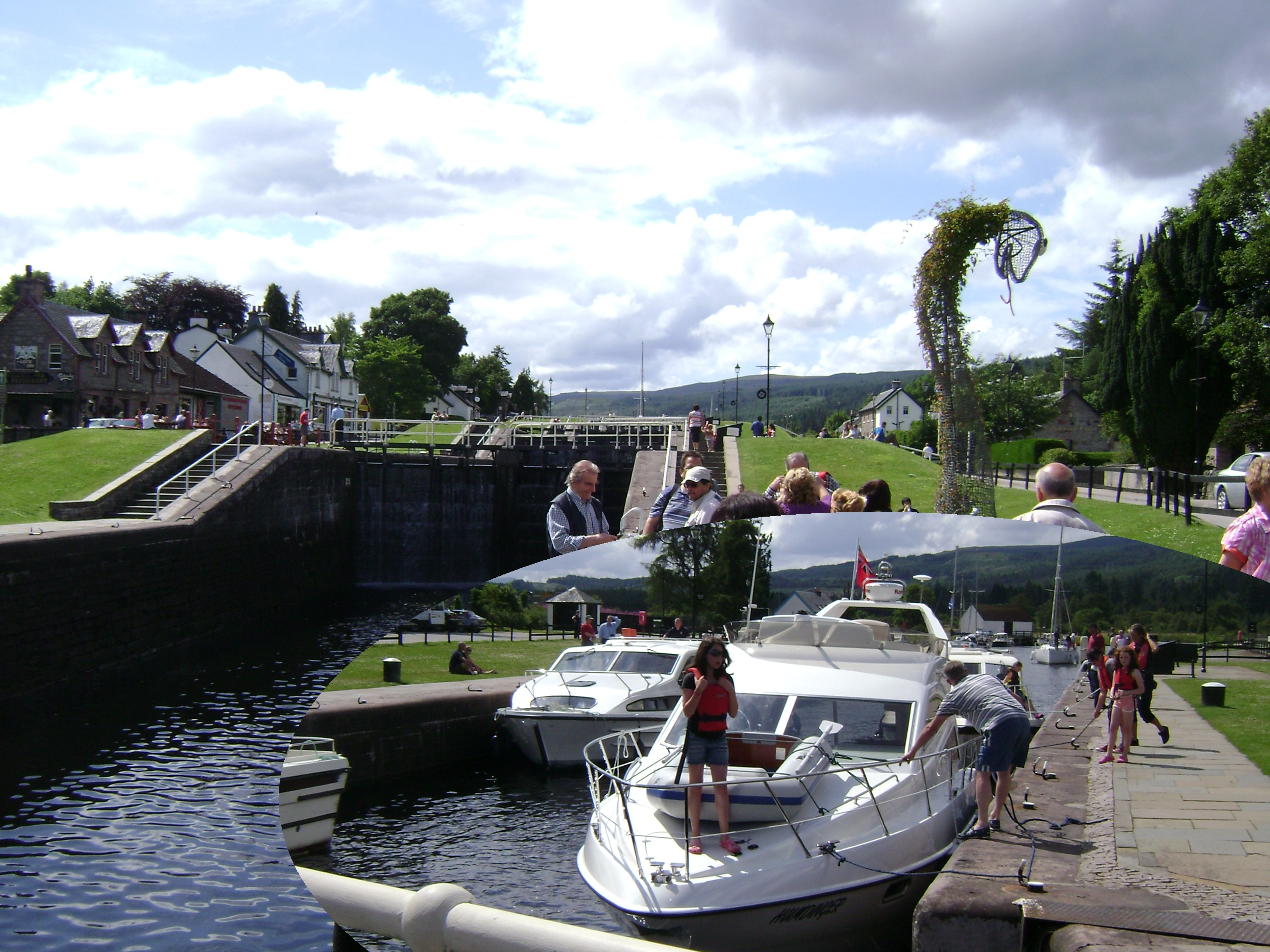 Caledonian Canal. Skotland. Fort Augustus